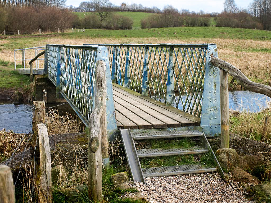 Techelsdorf, Schleswig-Holstein (Germany), iron bridge crossing the river Eider, photo 2008